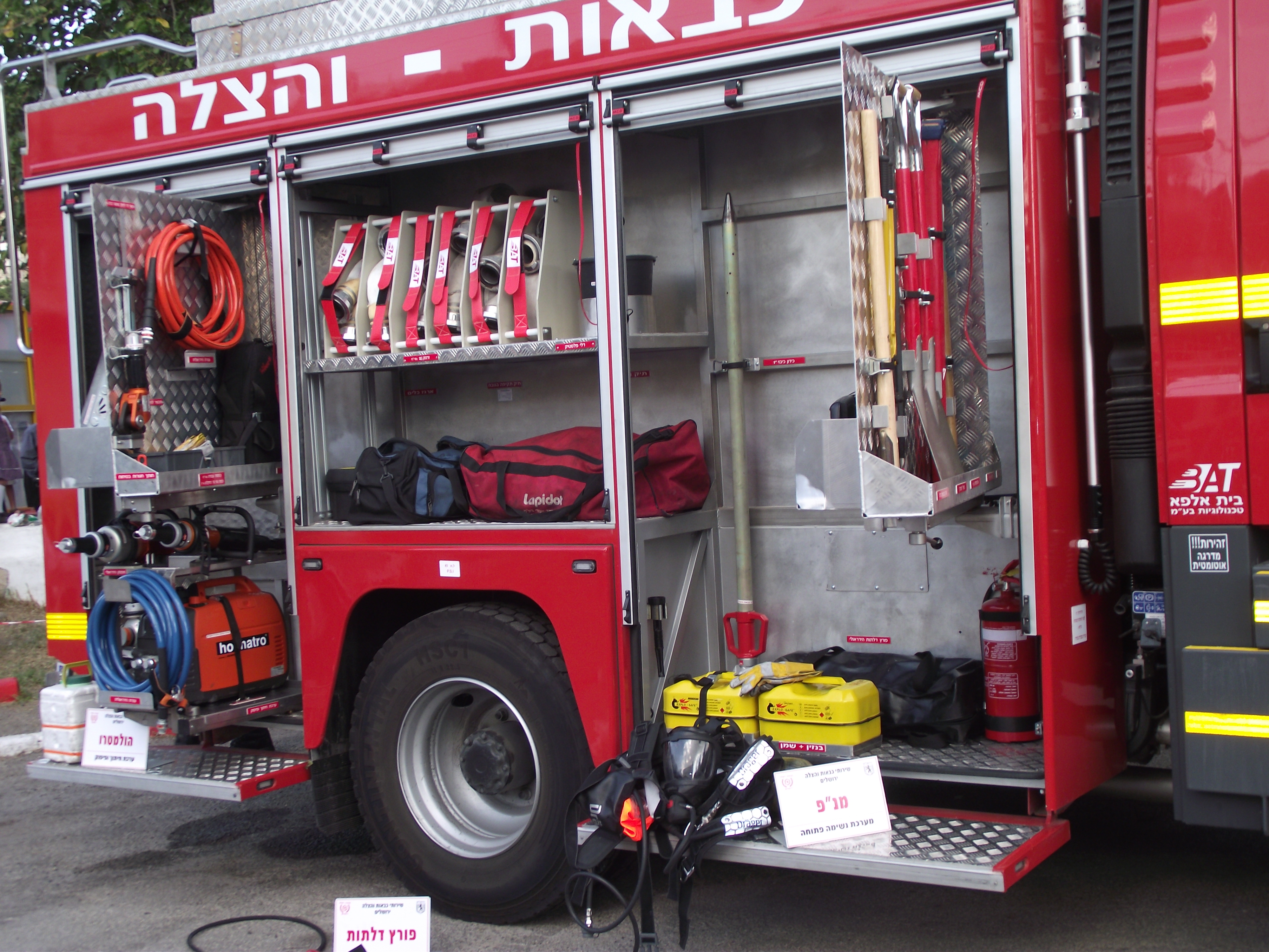 Fire truck open demonstration by Israeli Fire and Rescue Services